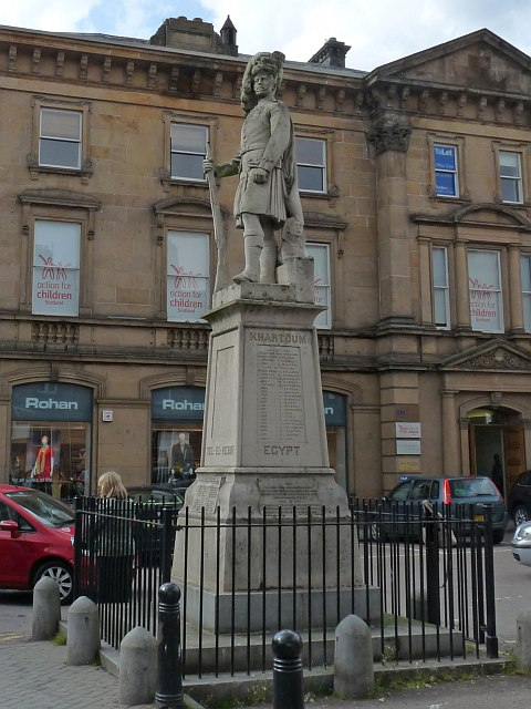 War memorial to Cameron Highlanders, Inverness